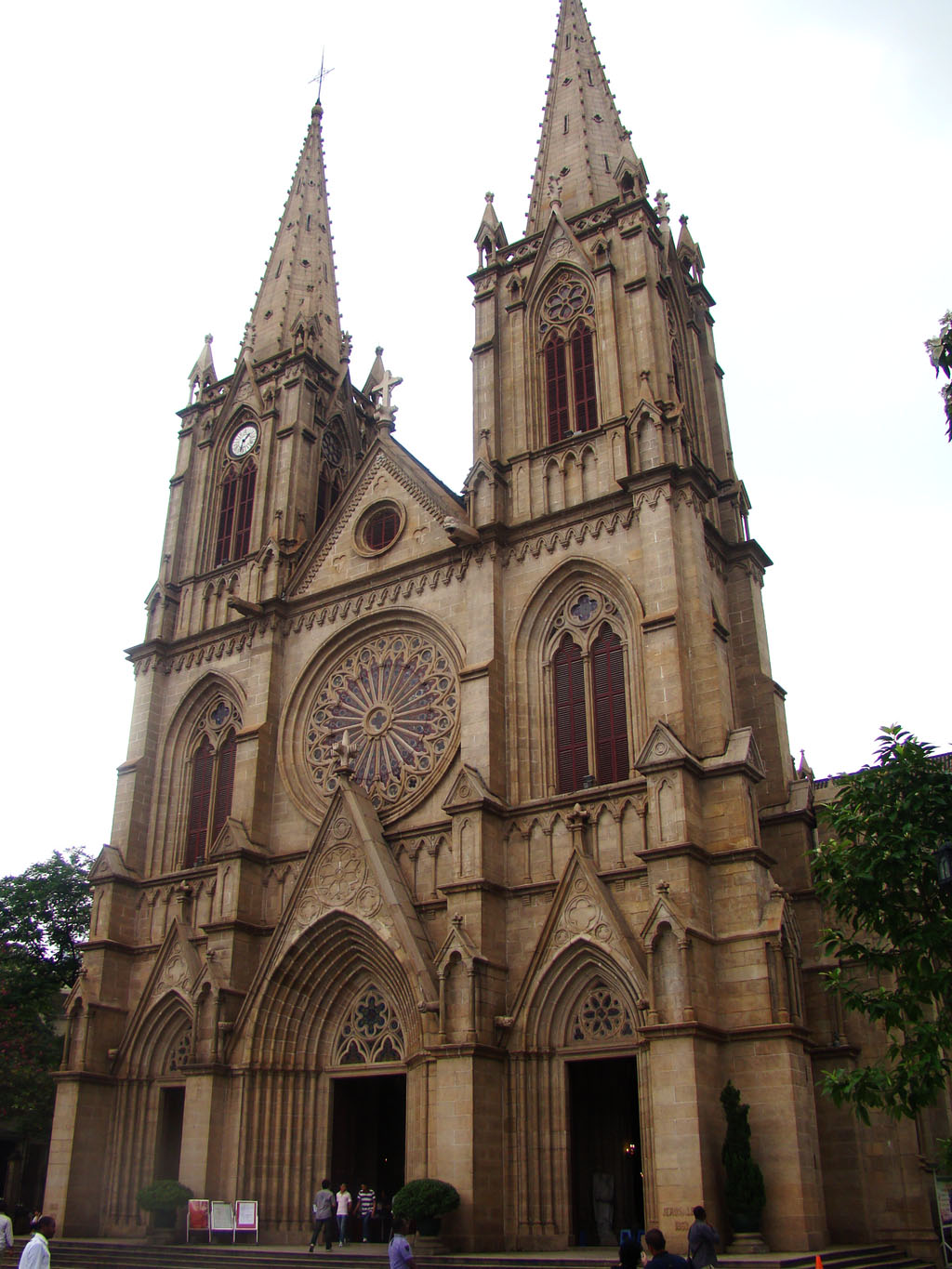 The view of Sacred Heart Cathedral, in Yat Tak(Yide) Road, Canton, China.